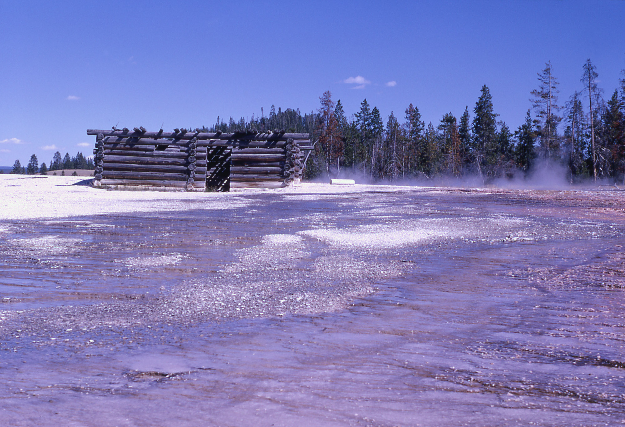 Queen's Laundry Bathhouse in Yellowstone National Park, Wyoming, USA, in 1964 from NPS slide collection